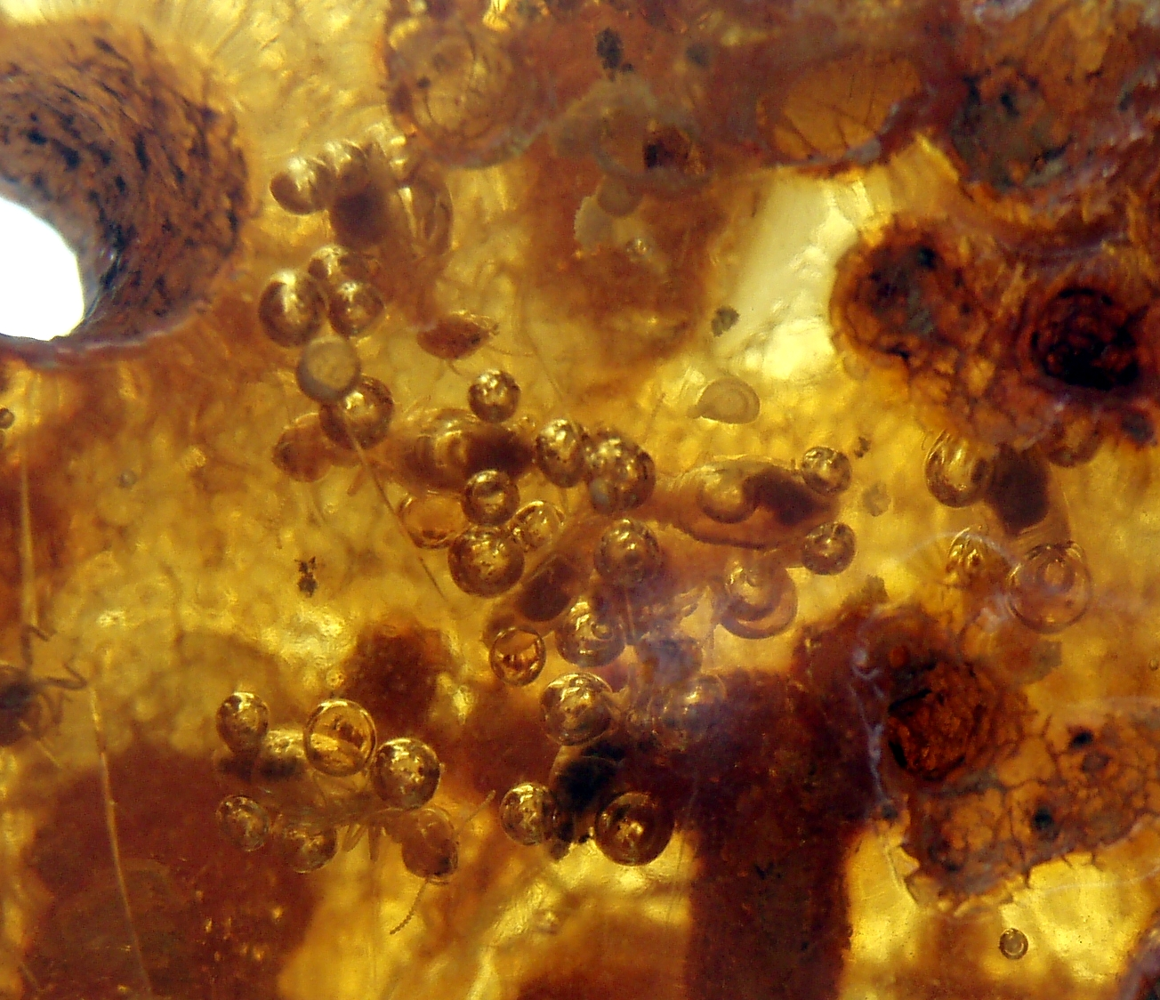 Termites and other insects in copal